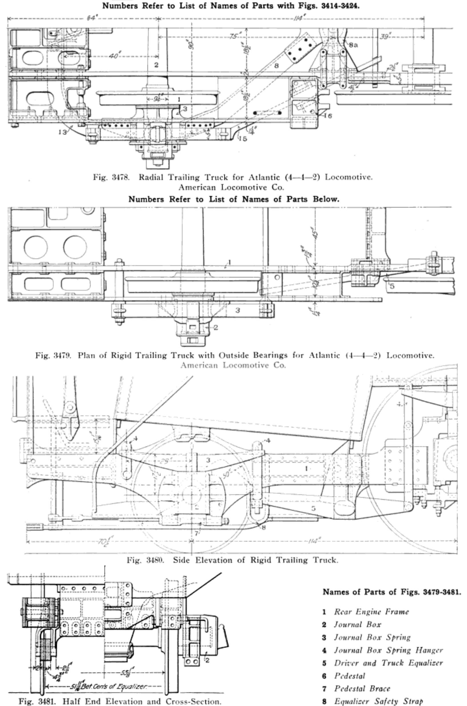 An engineering drawing of a locomotive trailing truck with cross-sectional views.